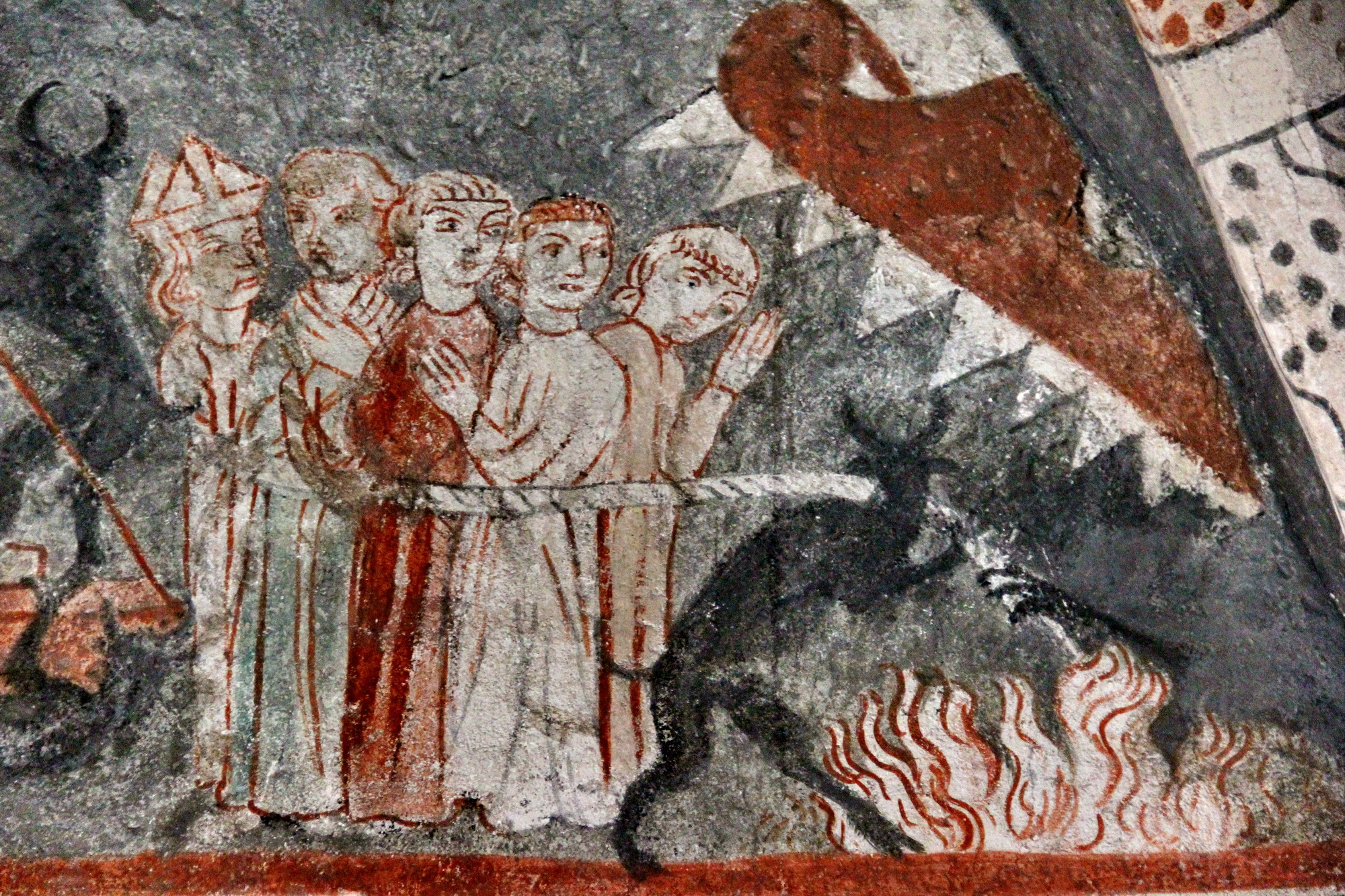 Church of St. Vitus Native nameSt. VituskircheLocationKottingwörth, Beilngries, Upper Bavaria, GermanyCoordinates49° 01′ 12.17″ N, 11° 31′ 06.86″ E